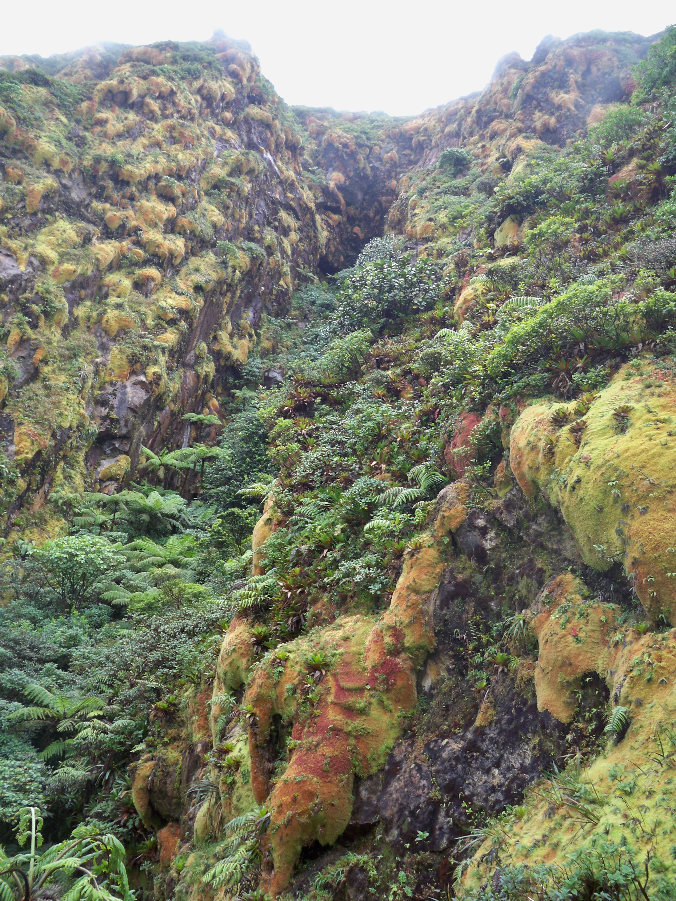 View of the Faujas landslip while climbing "La Soufrière" (active volcano, Guadeloupe)